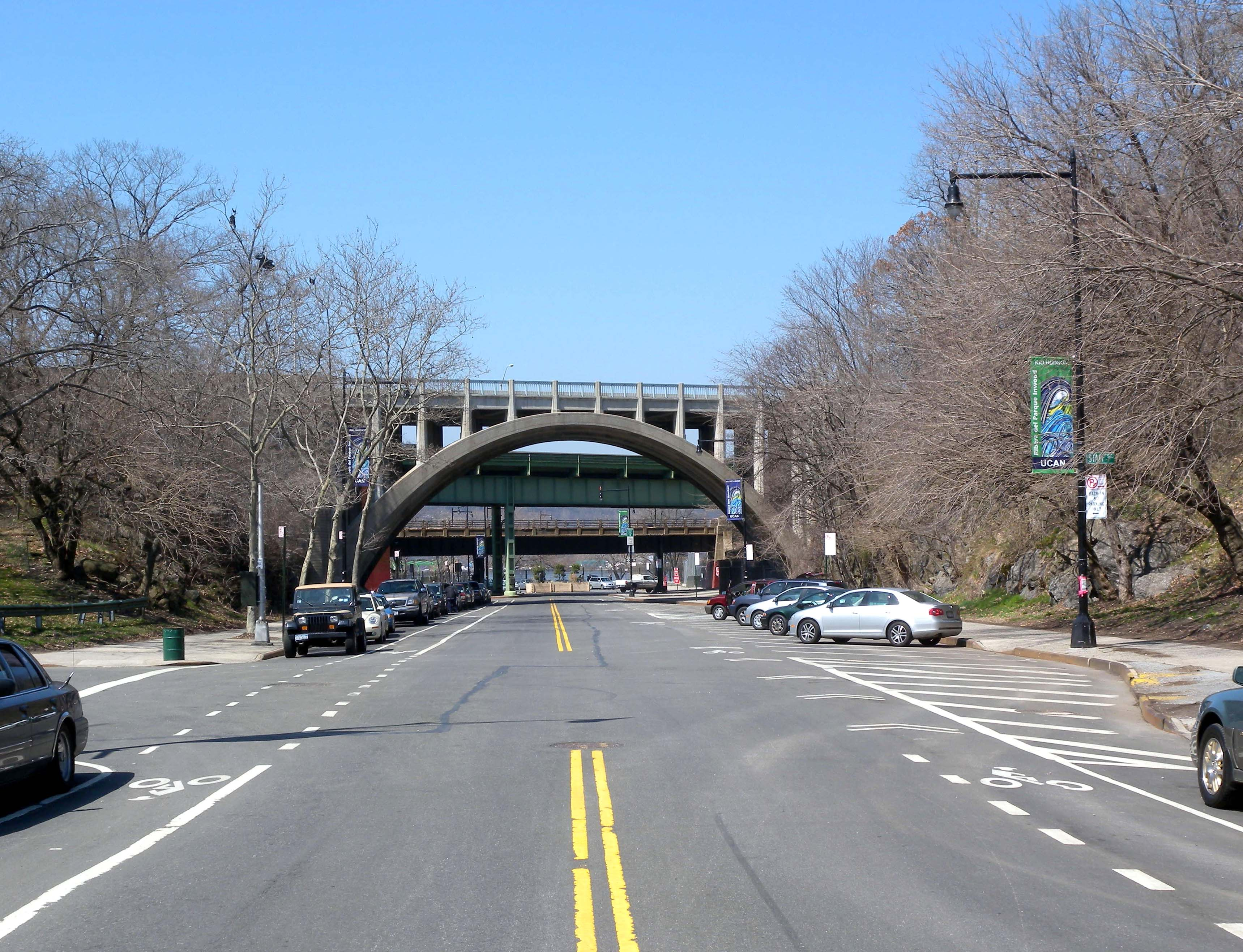 Looking northwest at the north end of Dyckman Street passing under Henry Hudson Parkway northbound arch overpass, southbound (green) overpass, and Empire Connection rail line, on a sunny midday. Inwood Hill park on the right, Fort Tryon Park on the left.